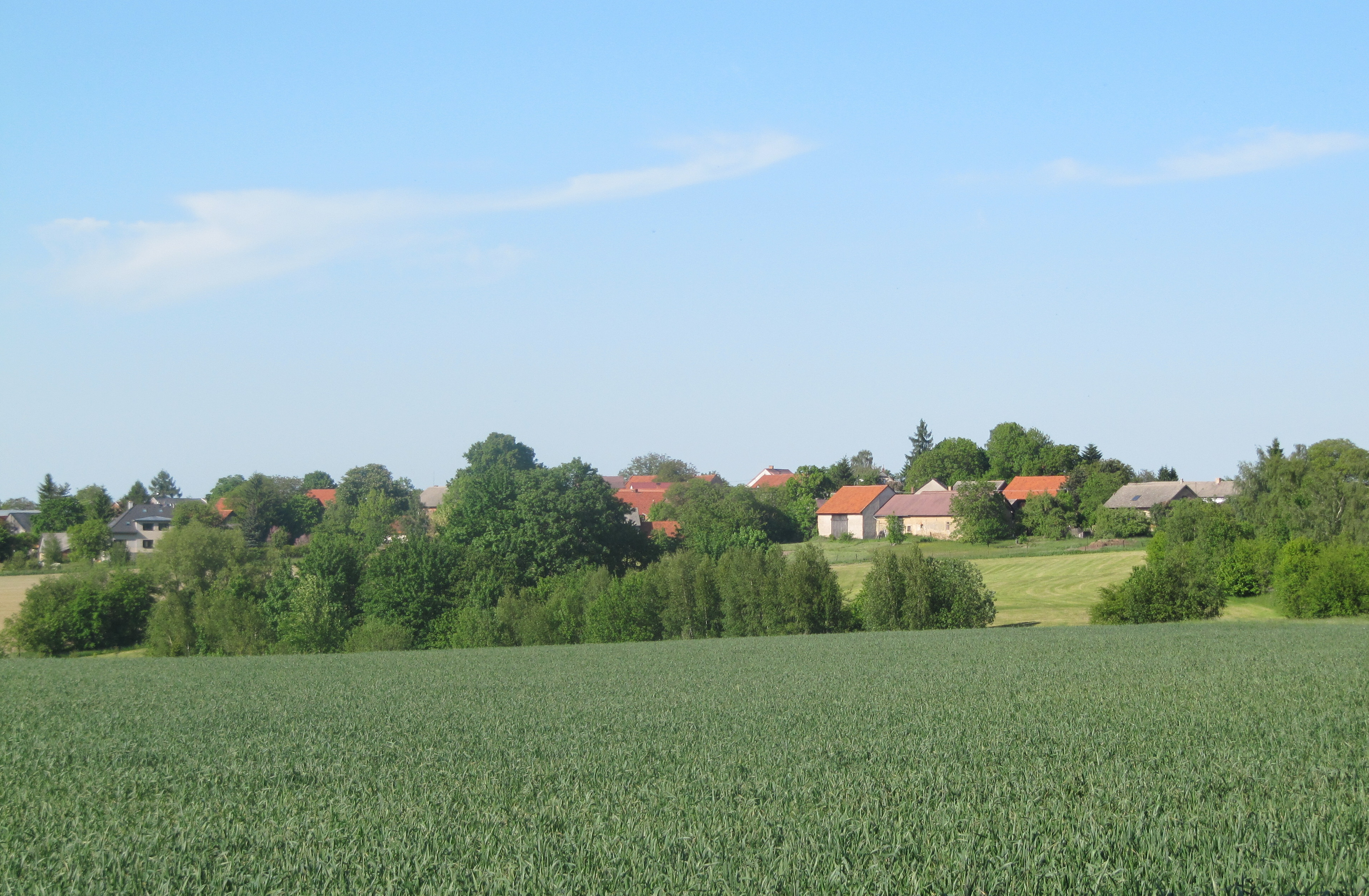 Staňkovice in Kutná Hora District, Czech Republic, part Chlum. General view of the way to Smilovice.